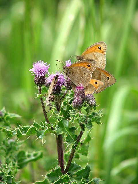 Having a party The thistles growing alongside the banks of the River Bure are visited by a great number of insects and butterflies. Here five Meadow browns (Maniola jurtina) are feasting on one thistle and many more were observed flitting from flower to flower. The Meadow brown is one of the most widespread and common butterflies of Great Britain. It can be found in a wide range of habitats, from downland and grassland, through to urban brownfield sites and coastal dunes. Unlike many other butterflies, the Meadow Brown can be seen on the wing under overcast skies, although it does prefer warm sunny days. Males are more wide-ranging than the females.